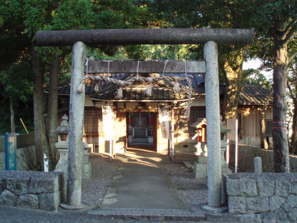 Sacred_arch_of_HAMA-oji